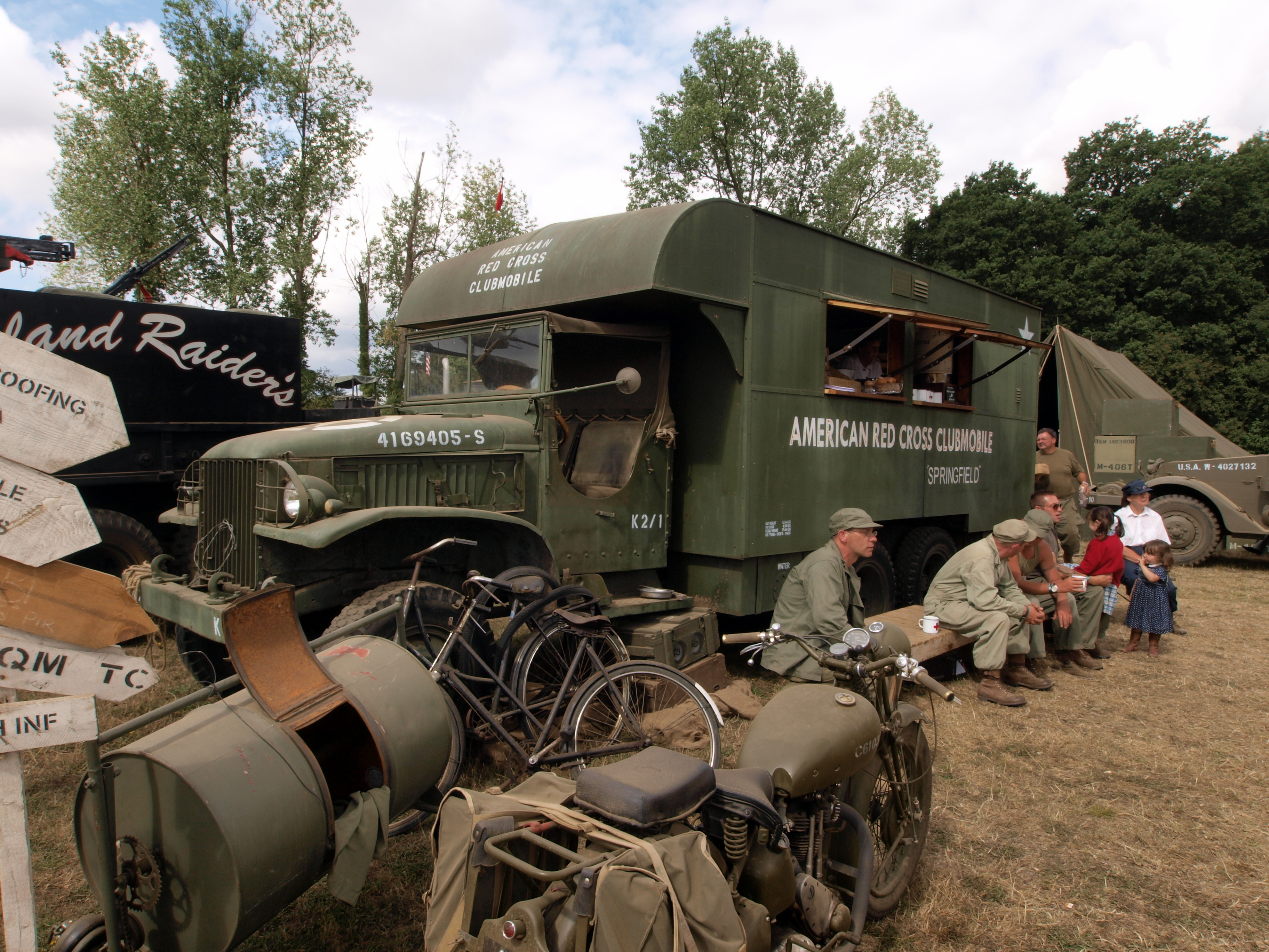 GMC 6x6 US Army Field Red Cross Canteen, 4169405-S